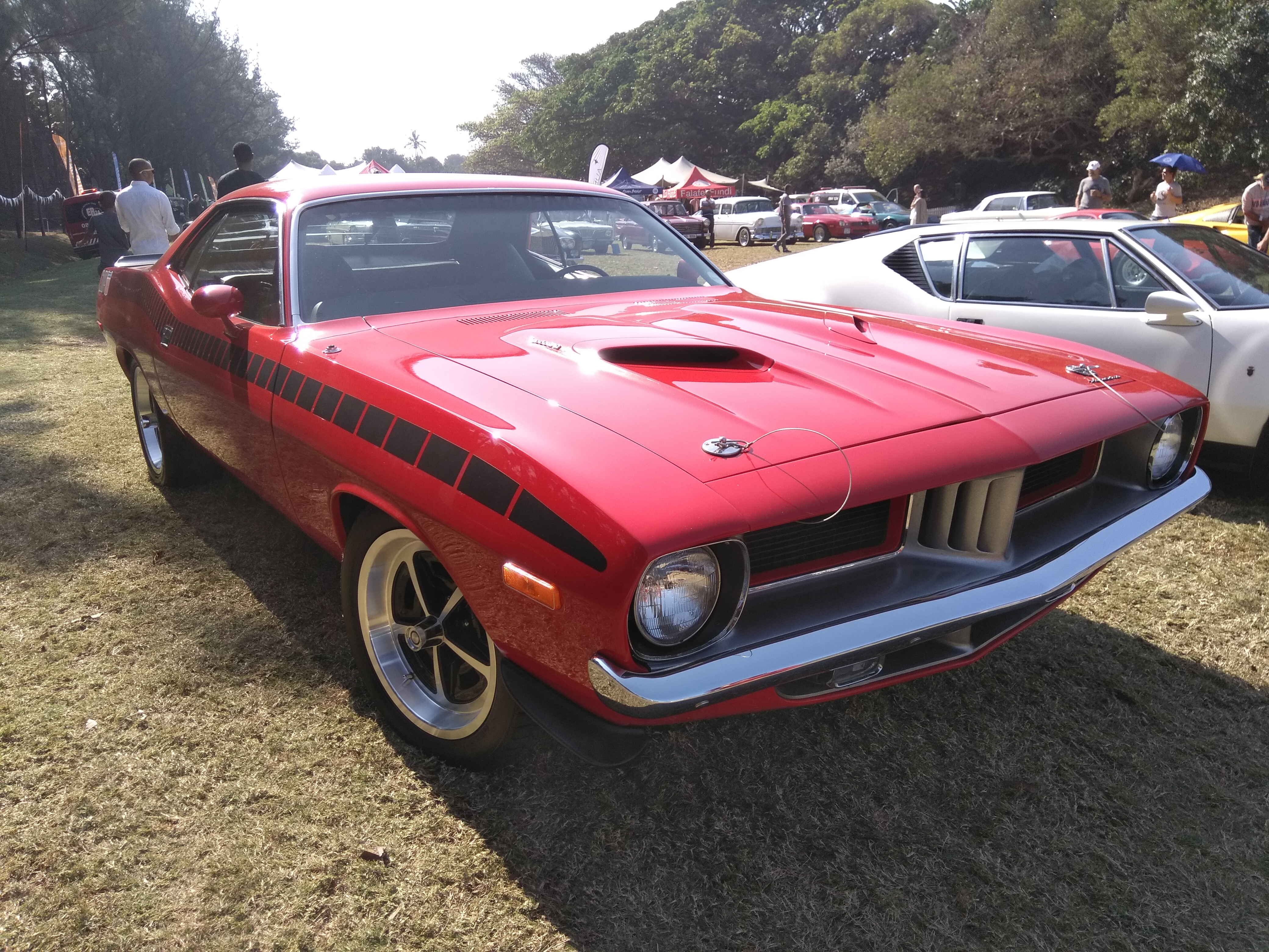 Plymouth Barracuda in South Africa